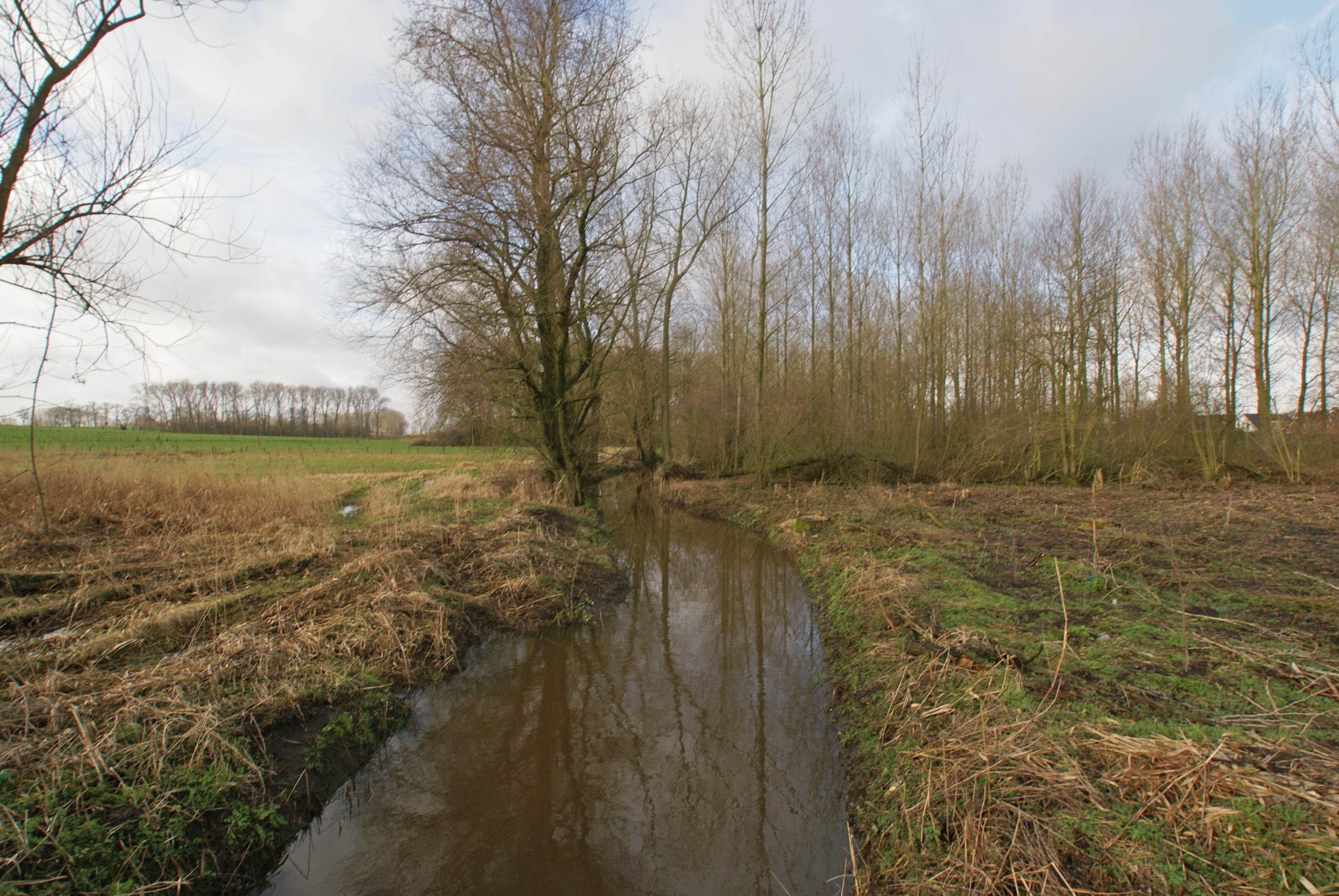 Beernem (Oedelem), Belgium: The river Bergbeek at the Sijsele Straat in eastern direction